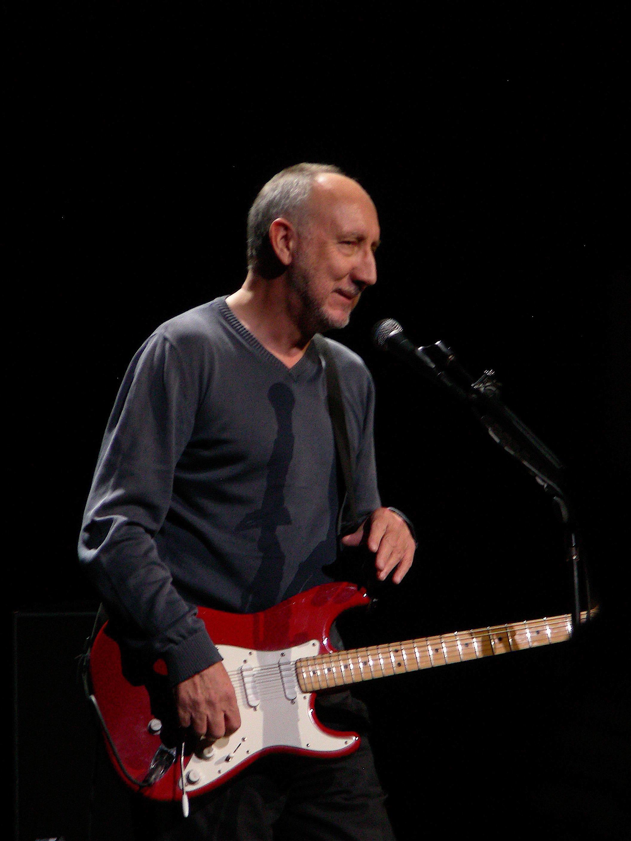 Pete Townshend performing with The Who in Philadelphia PA Oct. 26, 2008